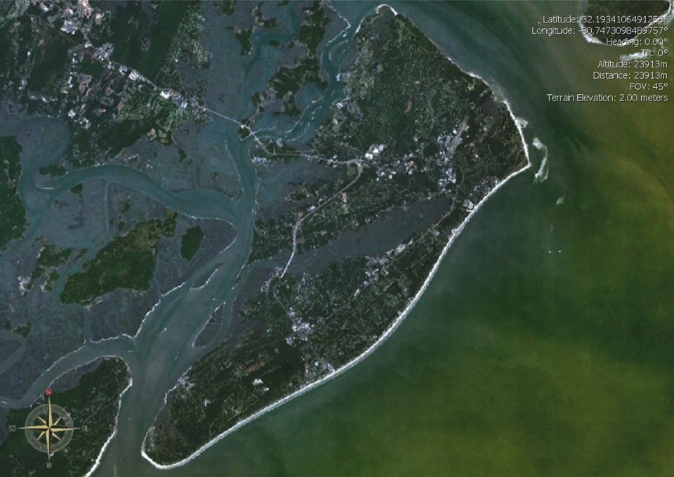 Satellite image of Hilton Head Island, South Carolina, United States.